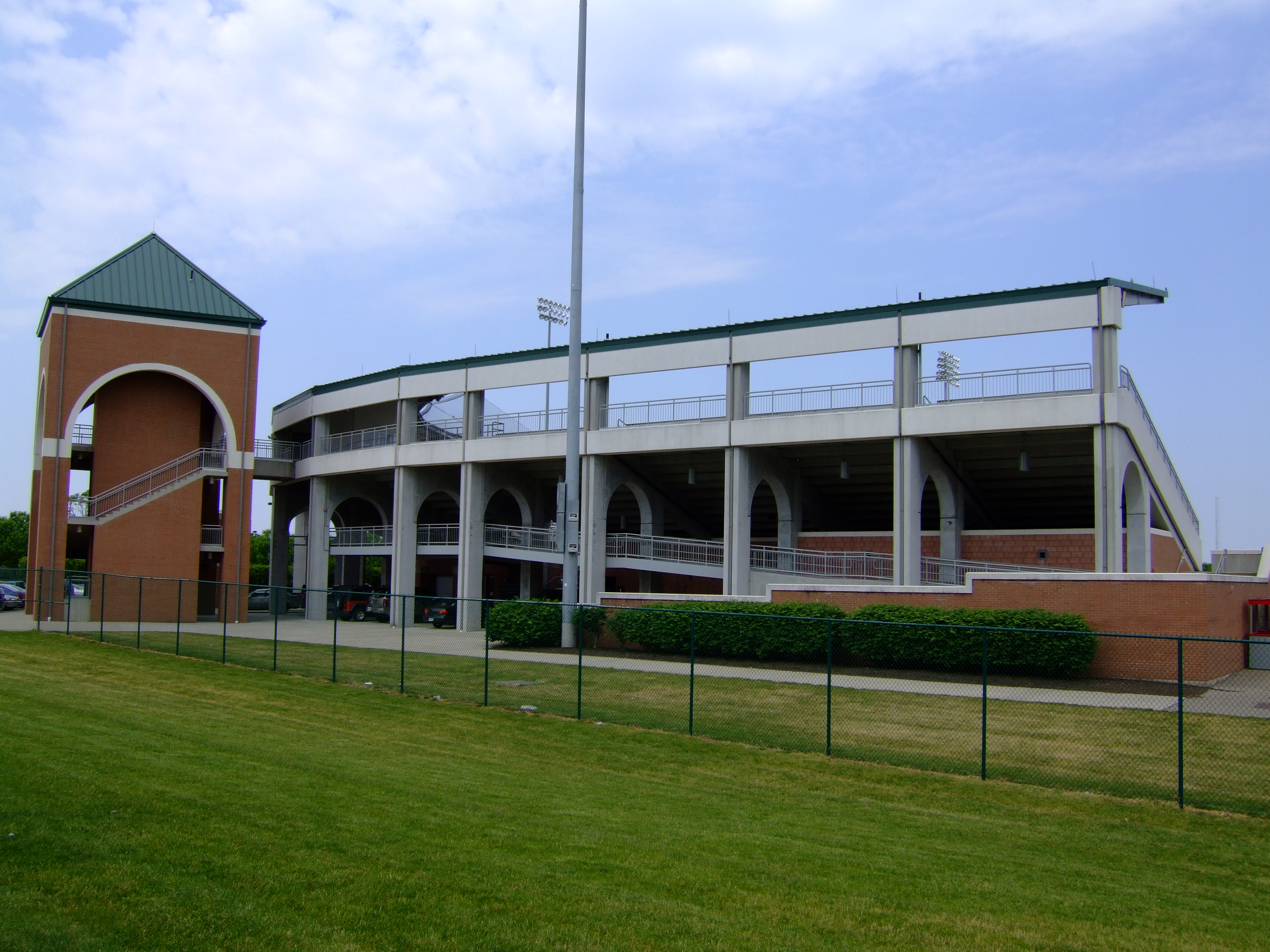 Bill Davis Stadium on the campus of The Ohio State University. Self made photo.